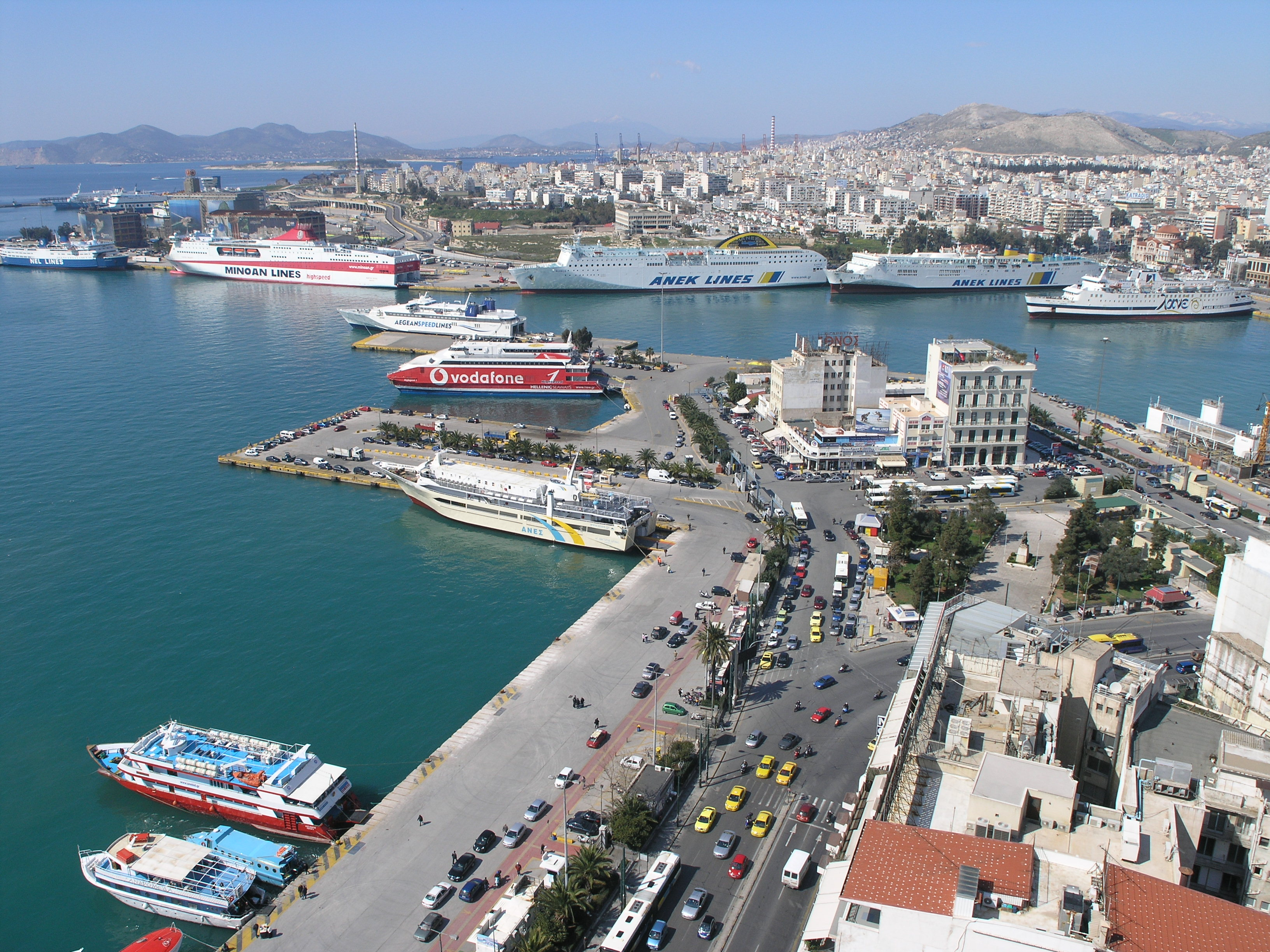 Panoramic view of the western part of the city and the port of Piraeus (periphery of Attica) in Greece. [In the picture is discernible the "Karaiskakis" square]